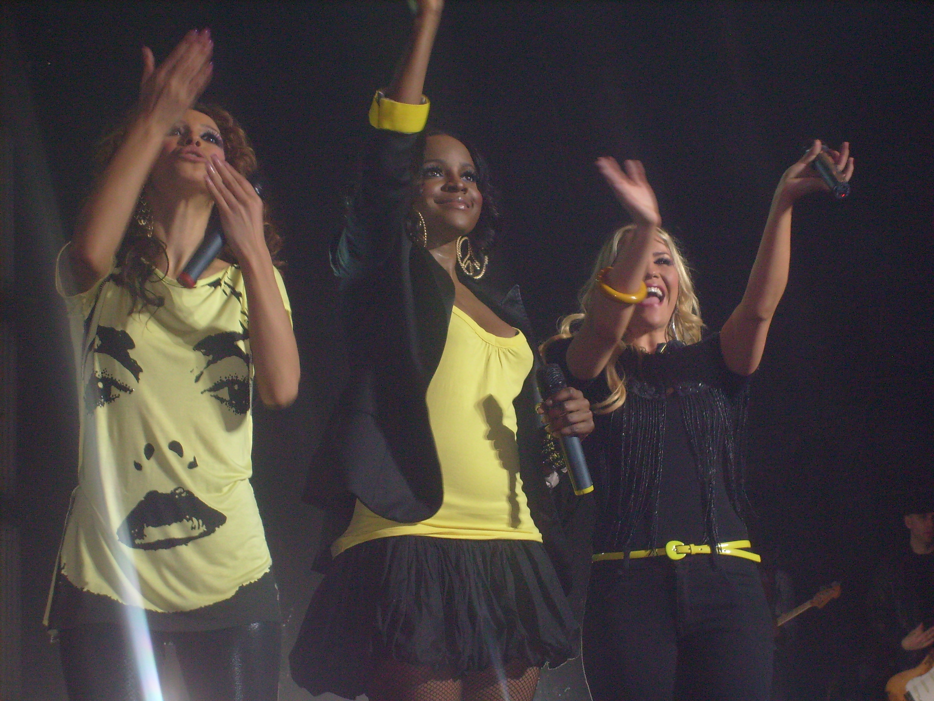 Sugababes performing on the Change tour at the Manchester Apollo